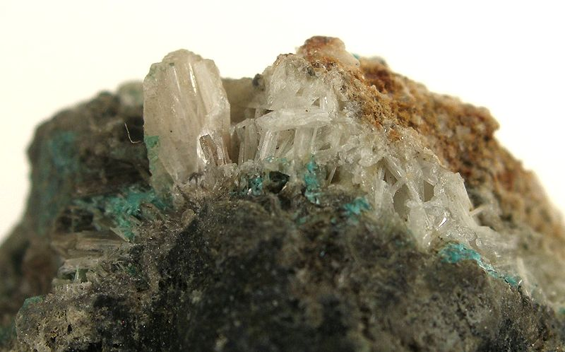 Lanarkite Locality: Susanna Mine (Glennery Scar Vein; Susanna Vein (Scar Vein); Portobello Vein; Humby Vein; Lead Vein), Leadhills, South Lanarkshire, Strathclyde (Lanarkshire), Scotland, UK (Locality at ) Size: miniature, 3.3 x 3.2 x 2.2 cm Lanarkite This is a rich specimen for the size with numerous off-white, platy crystals standing up on matrix. Surely there are other species present as well, in this complex assemblage known for its rarities. However, the lanarkite is, unusually, very clear and dominant. Type locality material, now hard to obtain. Ex. John White Collection.